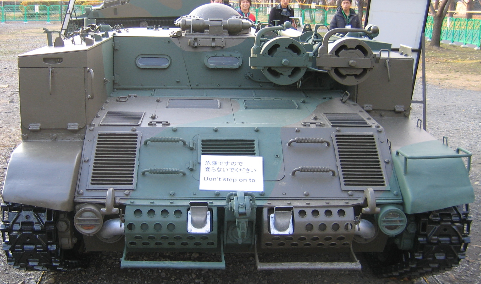 Rear view of a Type 60 Self-propelled Recoilless Gun at the Sinbudai Old Weapon Museum, Camp Asaka, Japan